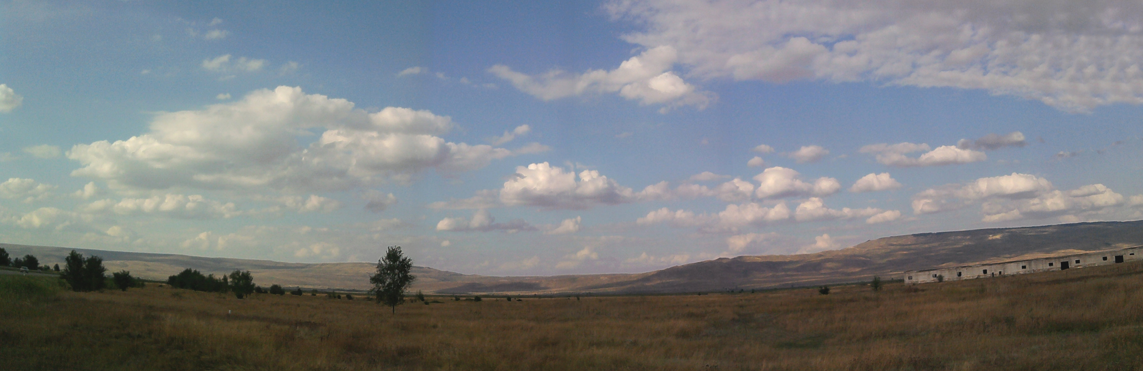 Panorama of Stavropol Hills at a distance of 10 km